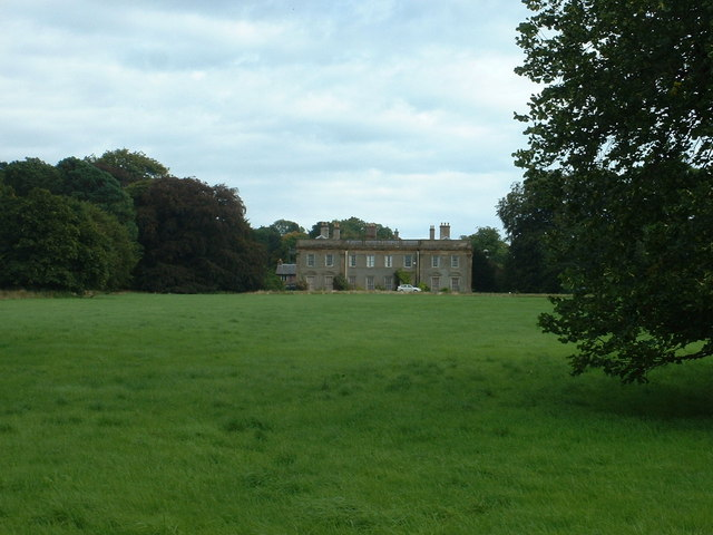 Leeswood Hall. Looking south east, from the imposing gates [see other photo posted for this square]